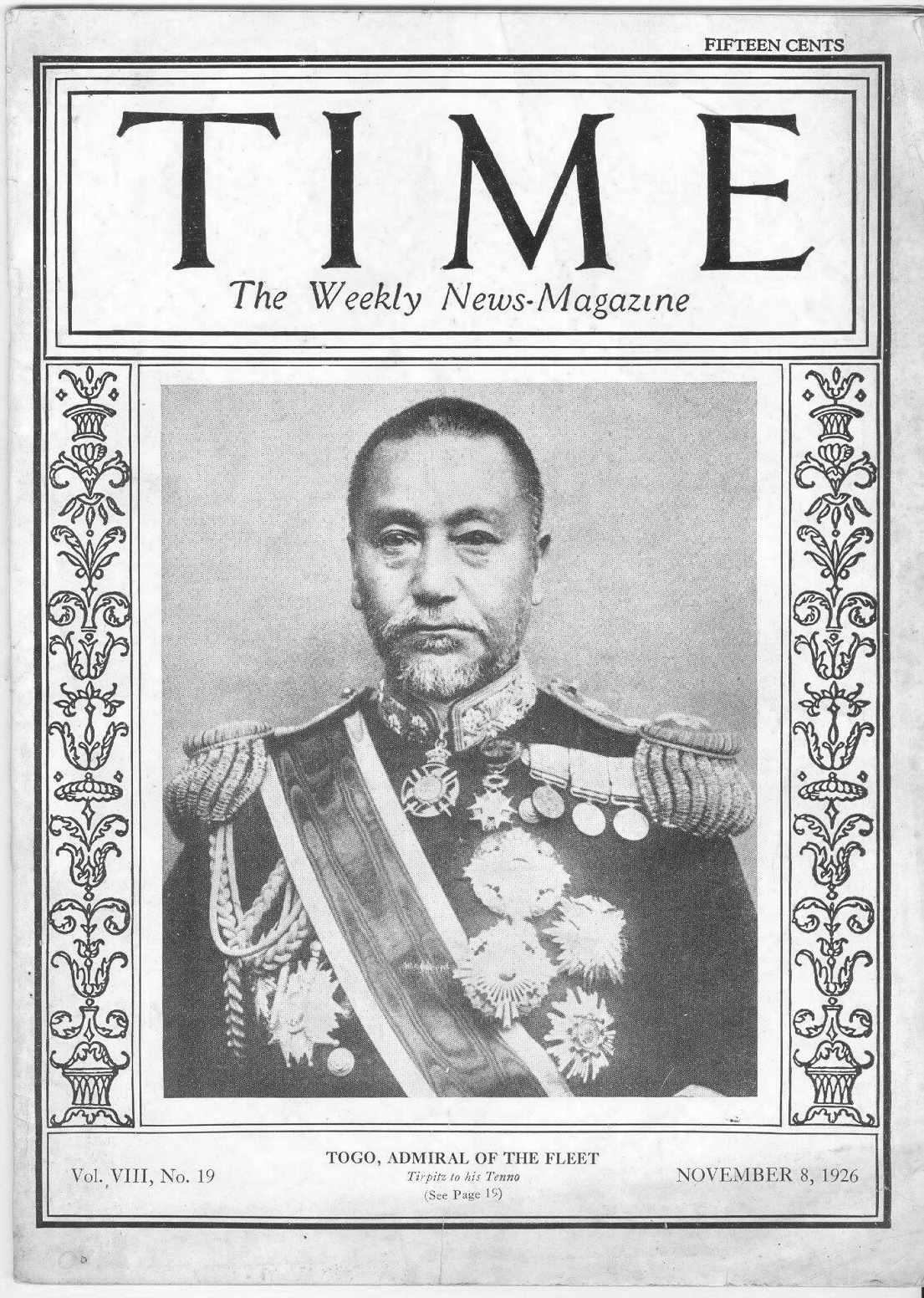 Admiral Heihachiro Togo on Time magazine cover, 1926.